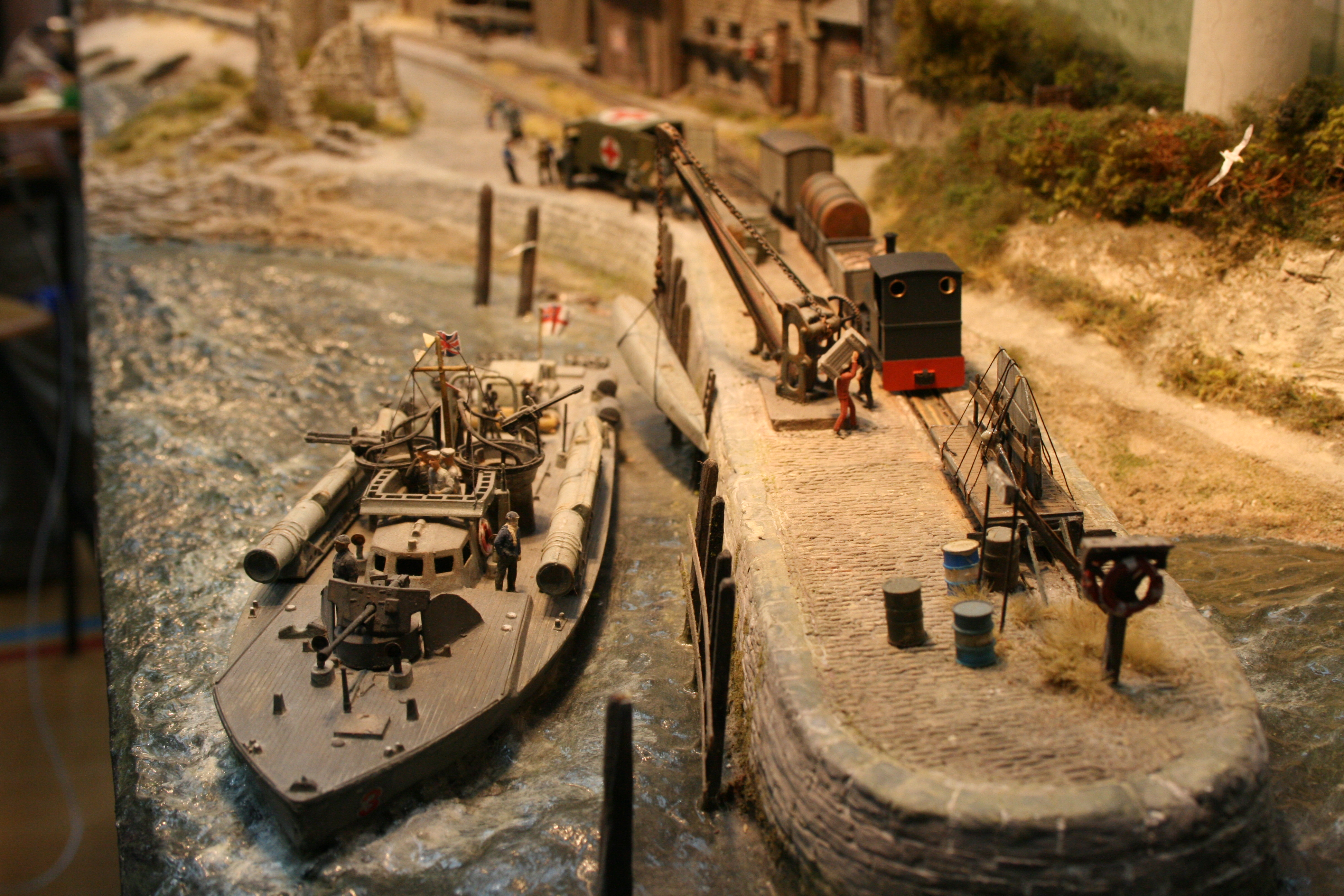 Layout by Henk Wust, a Dutch member of the 009 Society. Set during WW2 with appropriate boats and planes modelled, and the railway under military control.